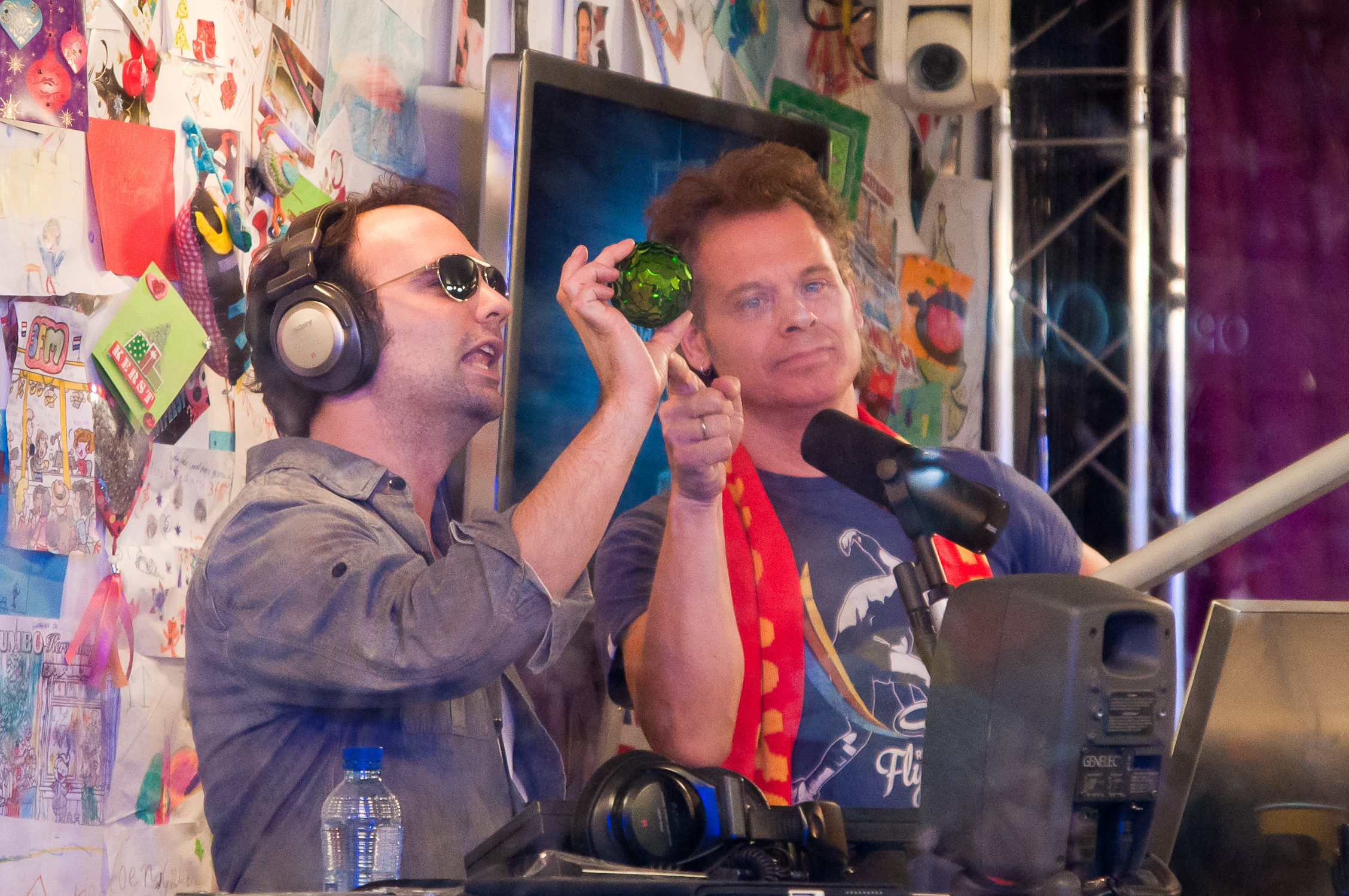 Ma Quale Idea by Pino D'Angio in Christmas rendition by Gerard Ekdom assisted by Bløf drummer Norman Bonink during Serious Request 2010 in Eindhoven.